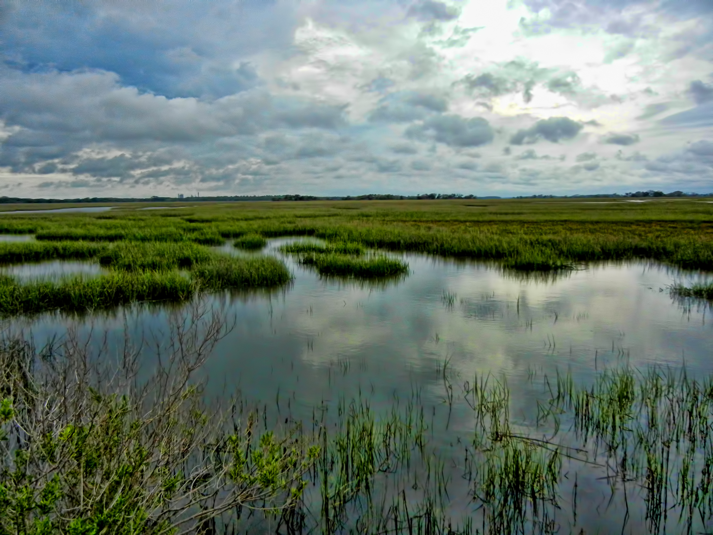 Cumberland Island Salt Marsh, Georgia, US